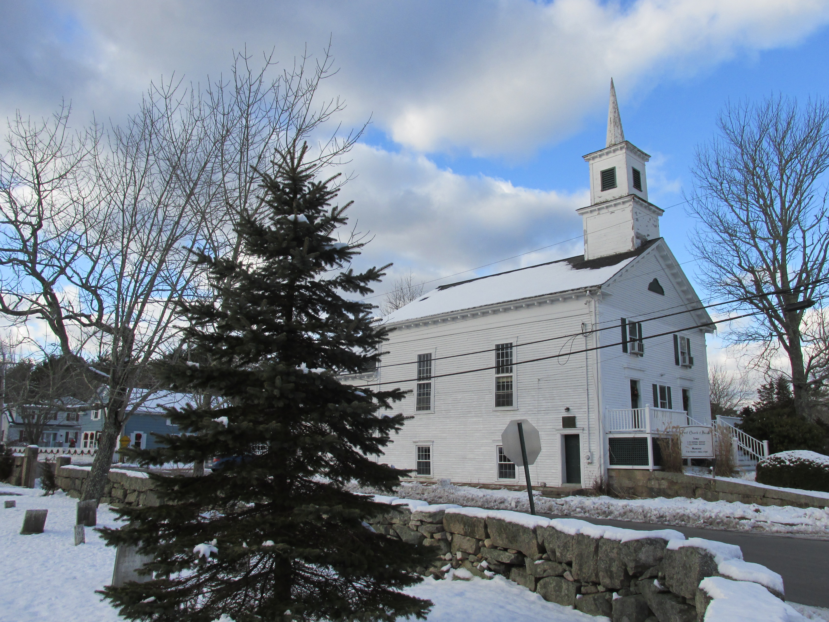 First Church of Hixville, Hixville Massachusetts - 2013